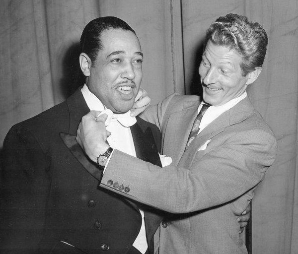 Publicity photo of Duke Ellington and Danny Kaye for a Blue Network radio broadcast.